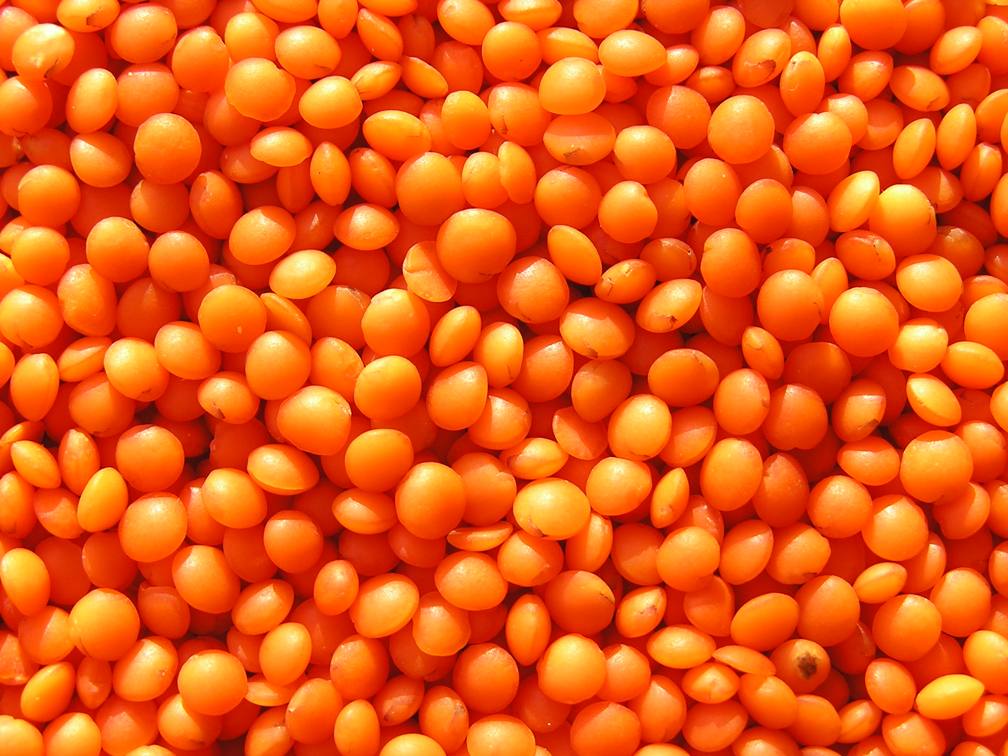 Lentil